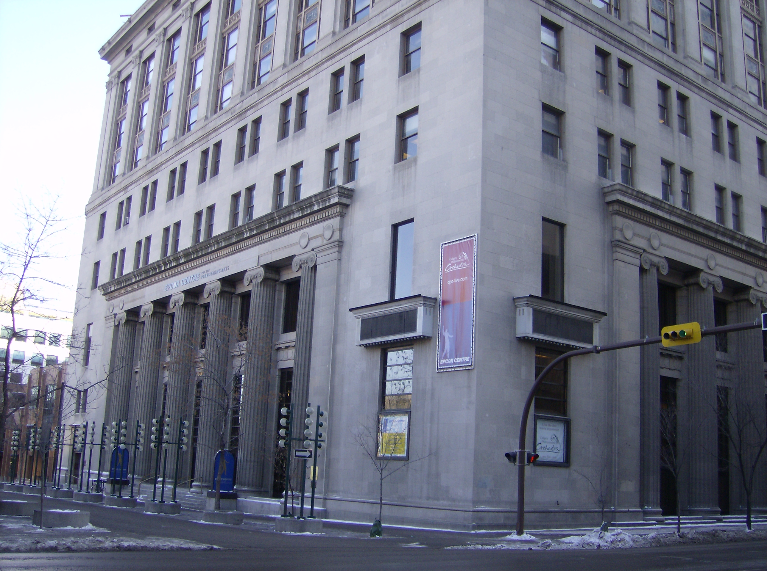 Northwest coerner of Jack Singer Concert Hall of the EPCOR Centre for the Performing Arts on 8 Avenue at 1 Street SE, Calgary, Alberta, Canada.